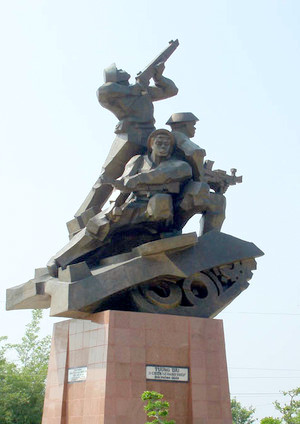 This is a victory monument dedicated to the NLF victory at Ap Bac in 1963. This was photographed in Tien Giang Province, Vietnam.